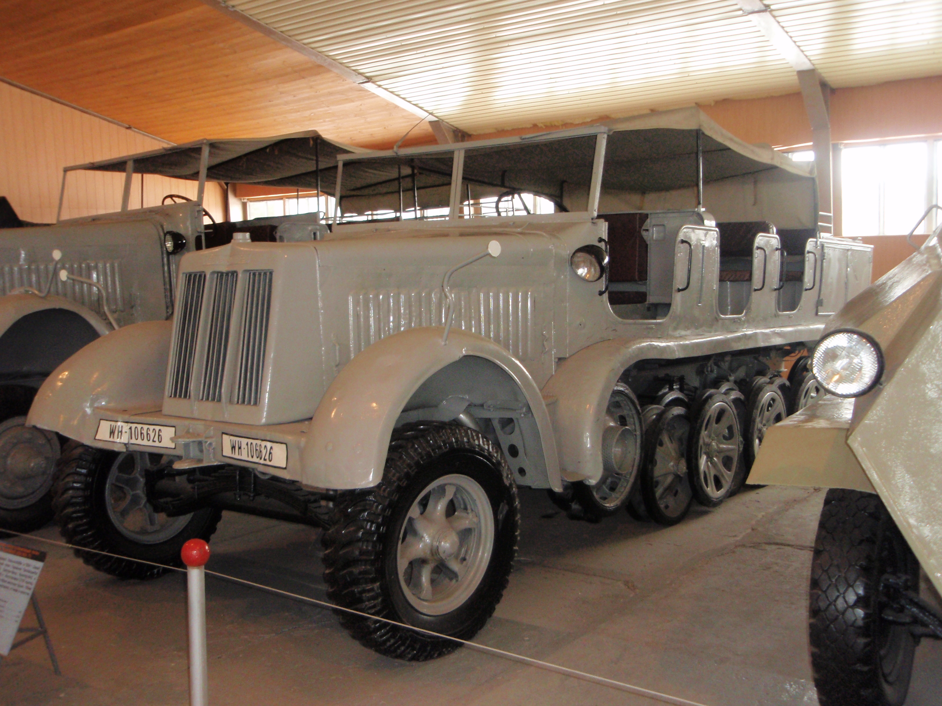 German half-track tractor Sd.Kfz.7 at Kubinka Tank Museum